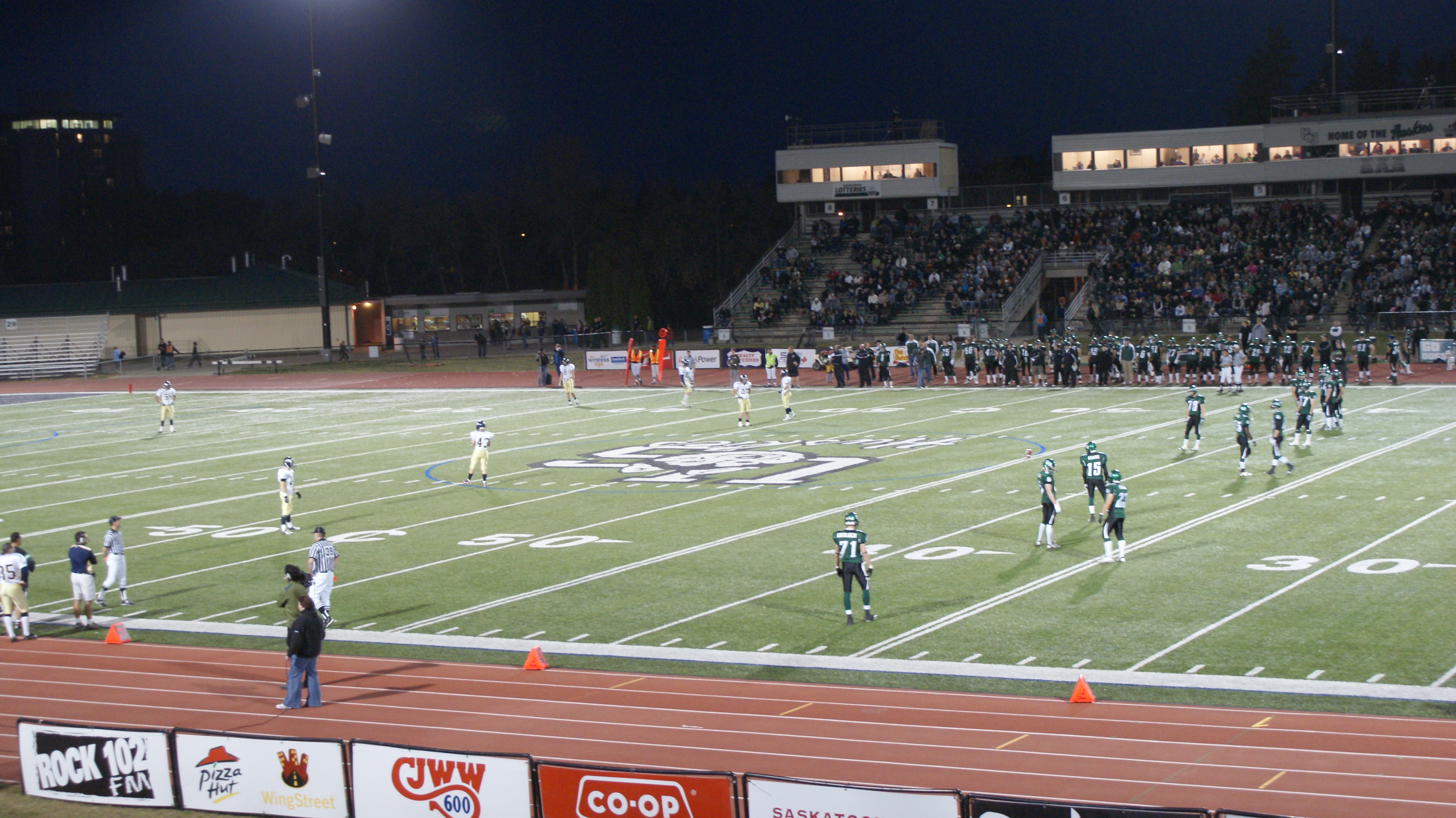 University of Saskatchewan Huskies football Line up at October 4, 2008 football game vs University of BC Thunderbirds